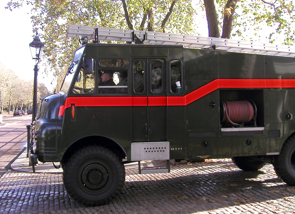 'Green Goddess', or Bedford RLHZ Self Propelled Pump, a fire engine used originally by the Auxiliary Fire Service (AFS), and latterly by the British Armed Forces. These vehicles were built between 1953 and 1956 for the Auxiliary Fire Service. The design was based on a Bedford RL series military truck.